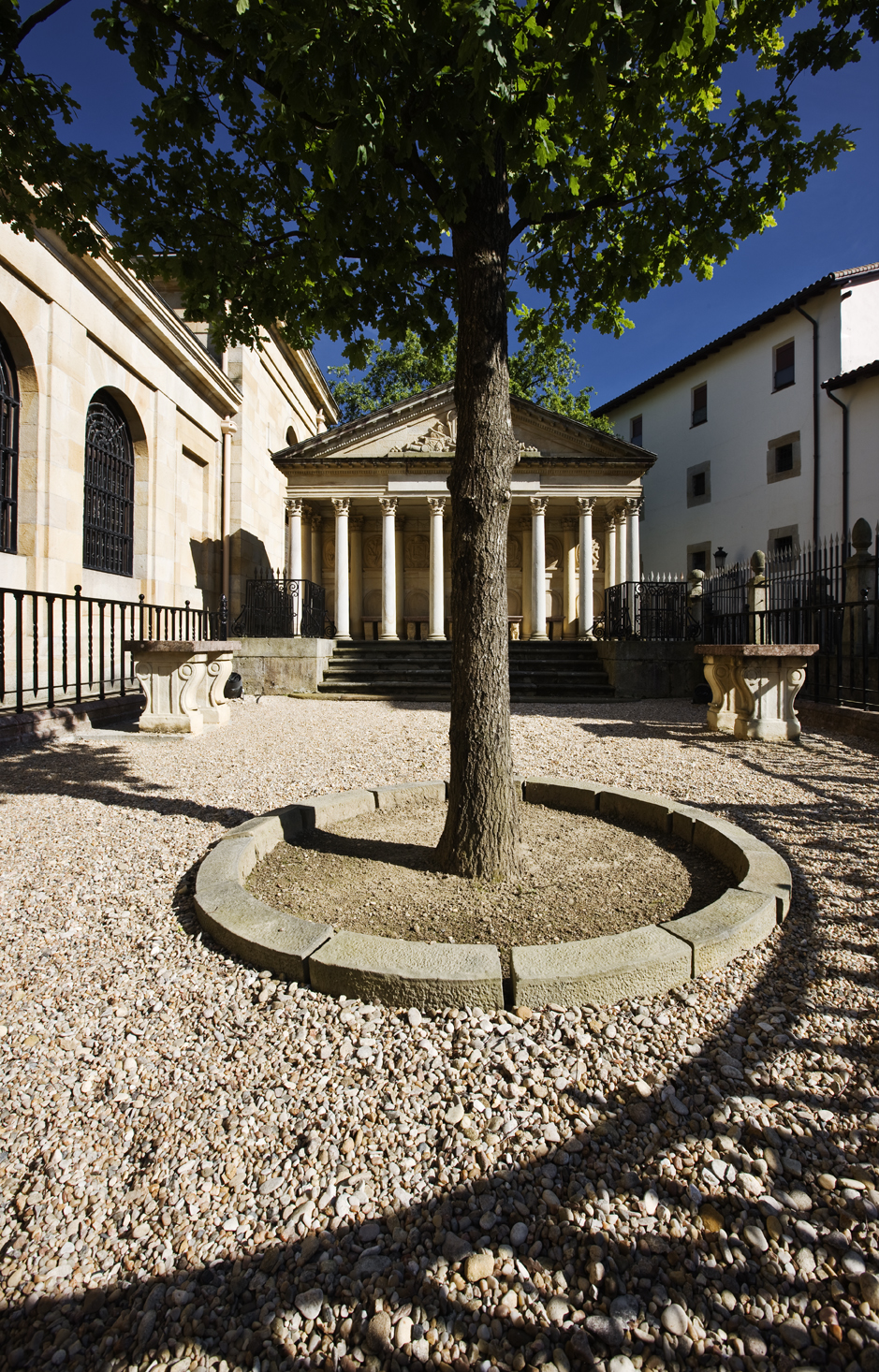 The tree of Guernica